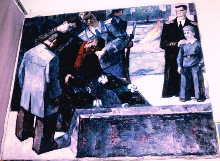 Alek Rapoport. Laying the Wreaths on the Field of Mars, 1958. Oil on canvas, 36 x 48”. Collection Museum of the City of St.Petersburg.